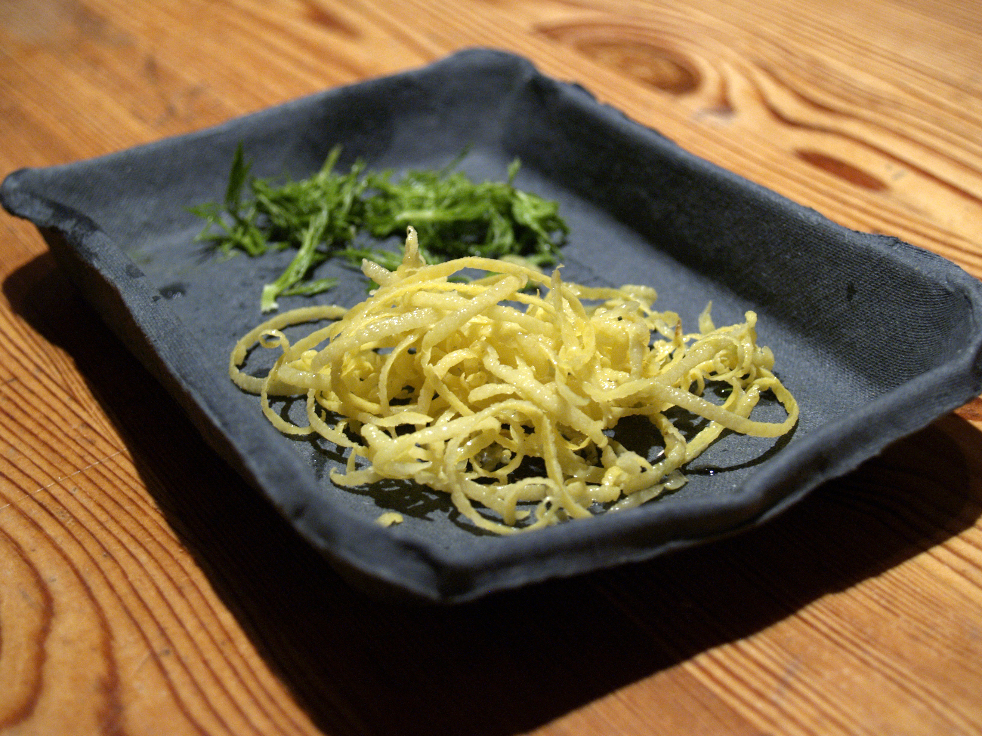 Lemon zest and fennel sprouts